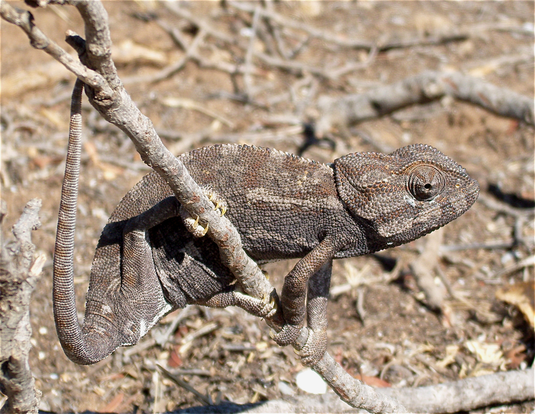 Chamaeleo chamaeleon found in the vicinity of Oueslatia (Tunisia)